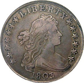 Obverse of an 1803 dollar